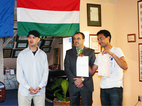 Nemeth 'Luigi' Lajos